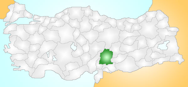 Shows the location of the Kahramanmaraş province in Turkey